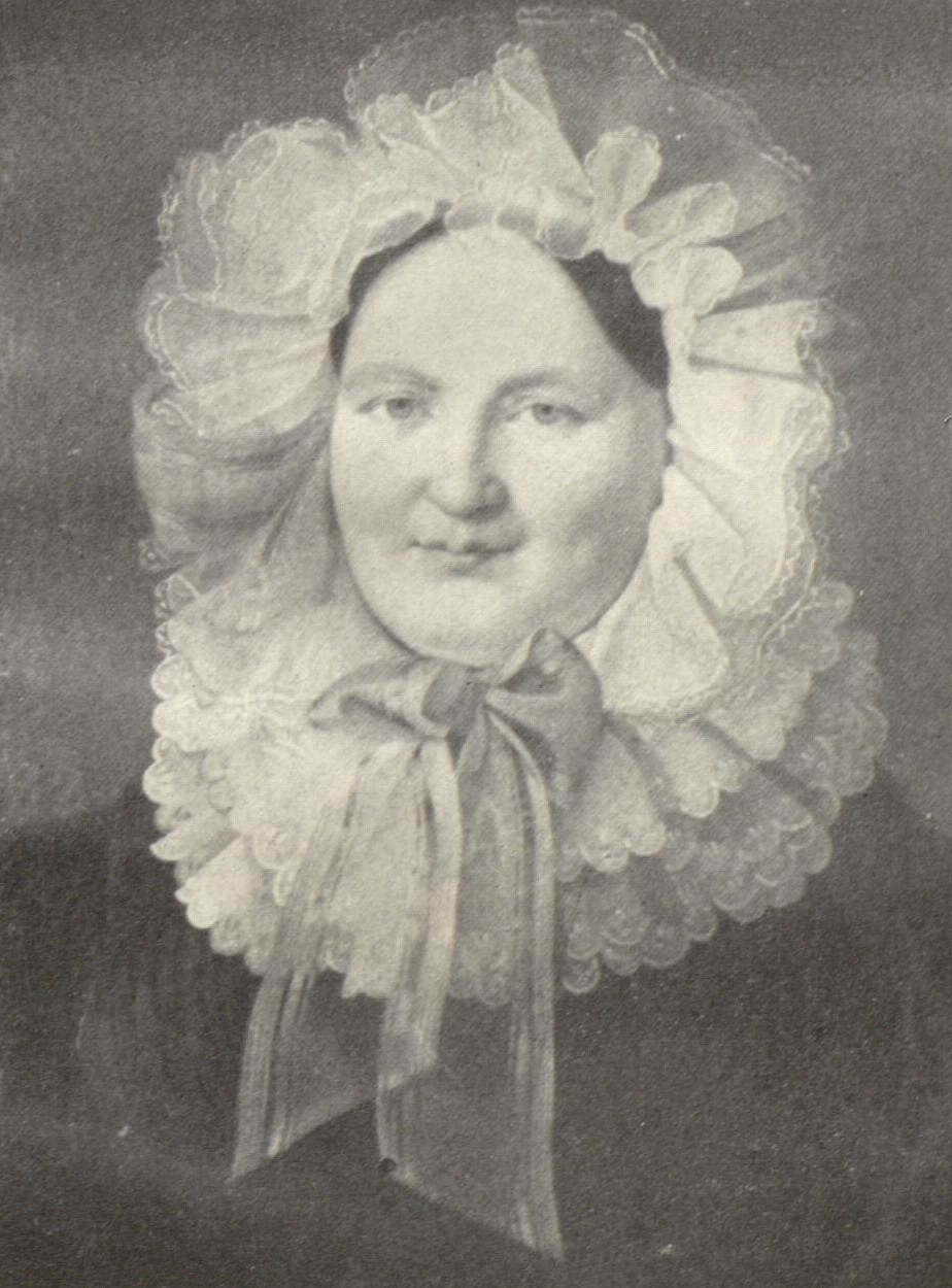 Henriette von Thadden, geb. von Oertzen (1801-1846)